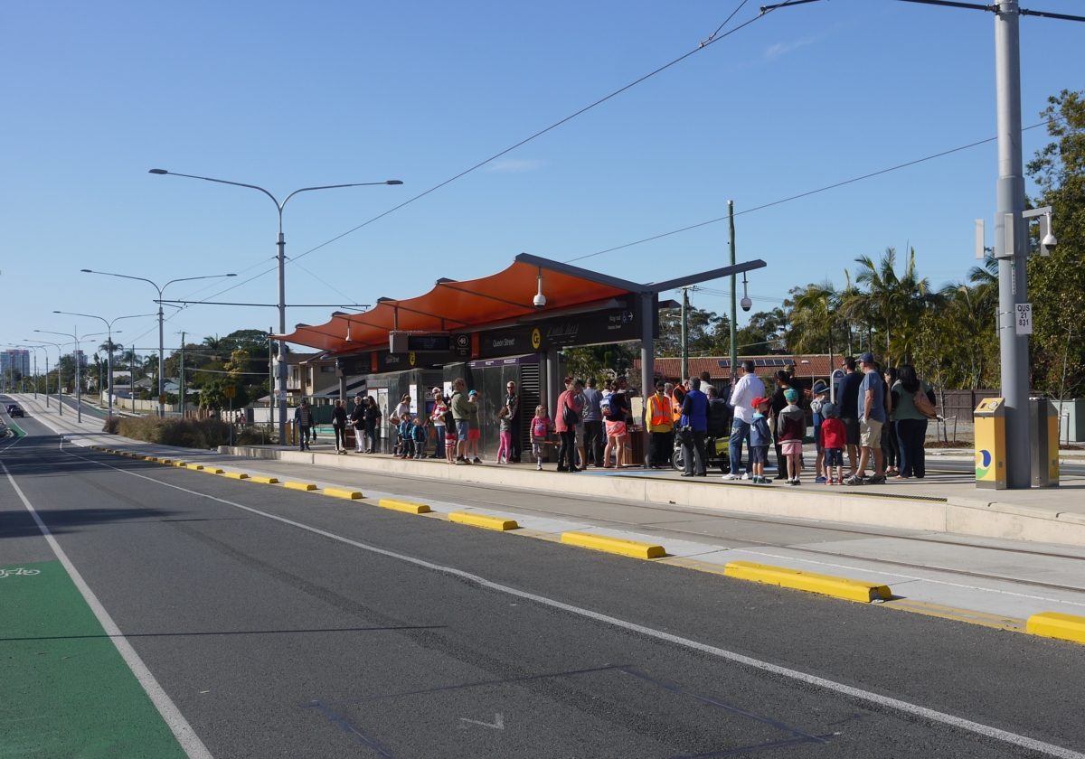 Queen Street (Southport) Light Rail Stop